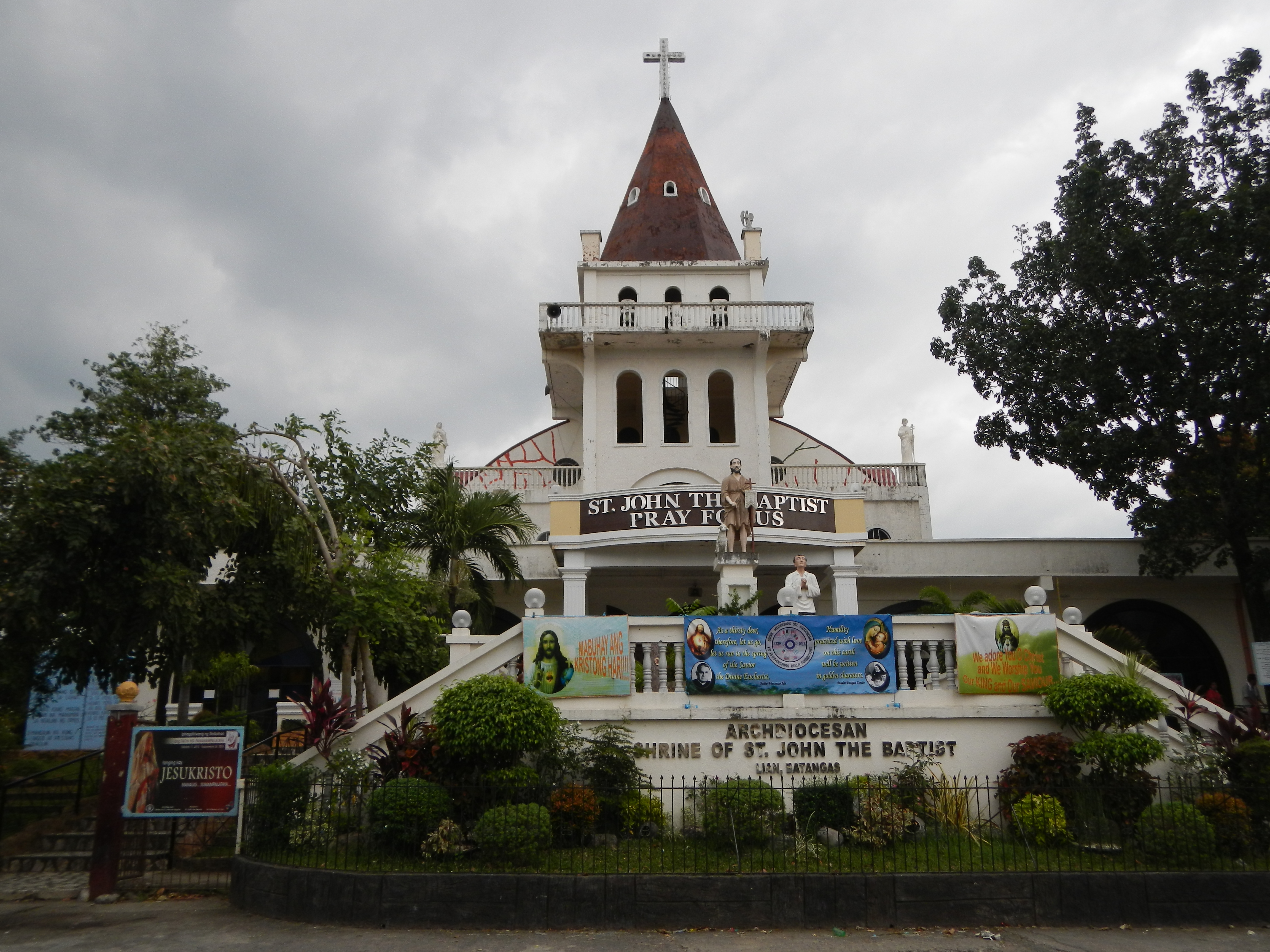 Upload Wizard photos of - the - a) Farner's Rural Bank, and Lian Municipal Hall (located in front of the Sangguniang Bayan of Lian, beside the Covered Basketball Court and Saint Clare Academy, Poblacion), c) National, Provincial Road, H. Lejano st. cor. JP Rizal st., and L. Baviera St., Barangay Poblacion 2, KM 100 LO, the Lian Municipal Hall and its Sangguniang Bayan Legislative Building and Session Hall beside the Covered Basketball Court, Rizal Monument, Knights of Columbus building, Children's Park, the Monument of Lian Martyrs executed by the Japanese on January 10, 1945 for loyalty to the allied causes and Marker of lone survivor Angel L. Limjoco, Jr. beside the Yale Children's School adjacent to the) - b) Archdiocesan Shrine of Saint John the Baptist of Lian - (August 29, 2011, Solemn Dedication - belongs to the Roman Catholic Archdiocese of Lipa [1] [2] [3] - Lian, Batangas[4].